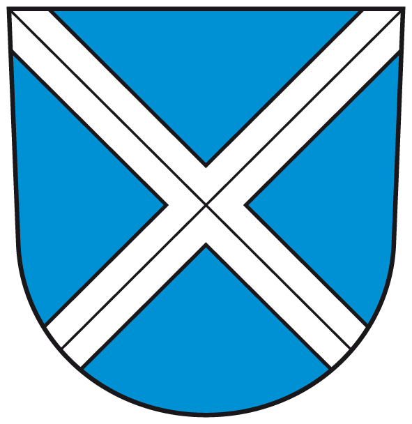 Coat of arms of Weisel